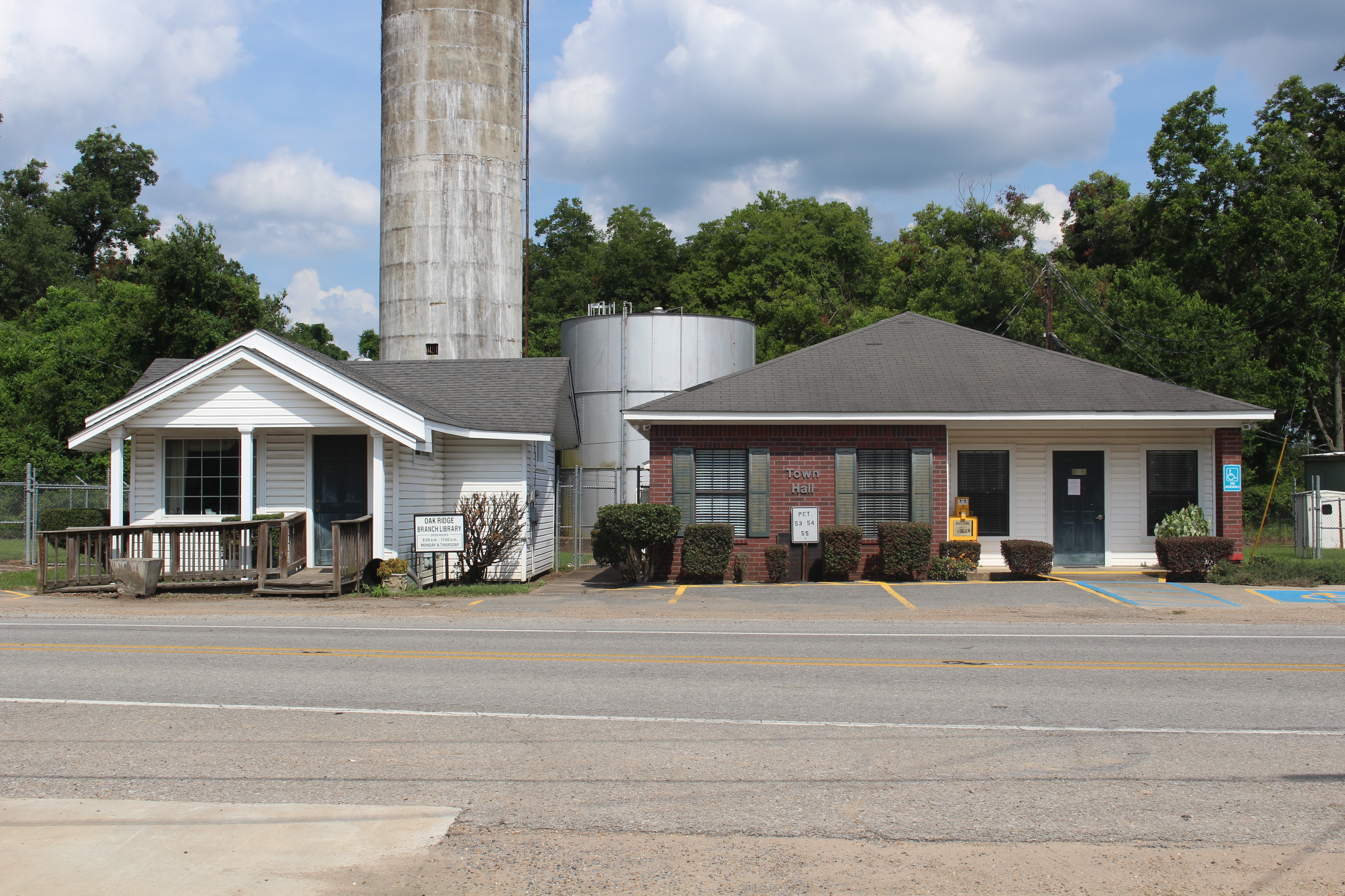 Location: Oak Ridge Louisiana Building on the right is Oak Ridge Town Hall. The Building on the Left is the Oak Ridge Branch Library.